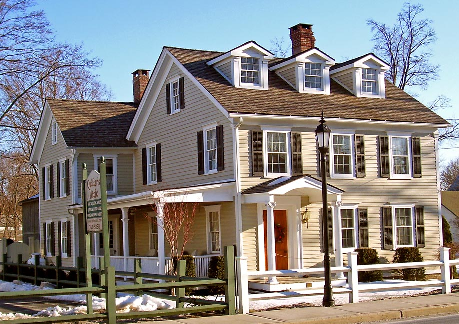 Photographed by Daniel Case 2007-03-06